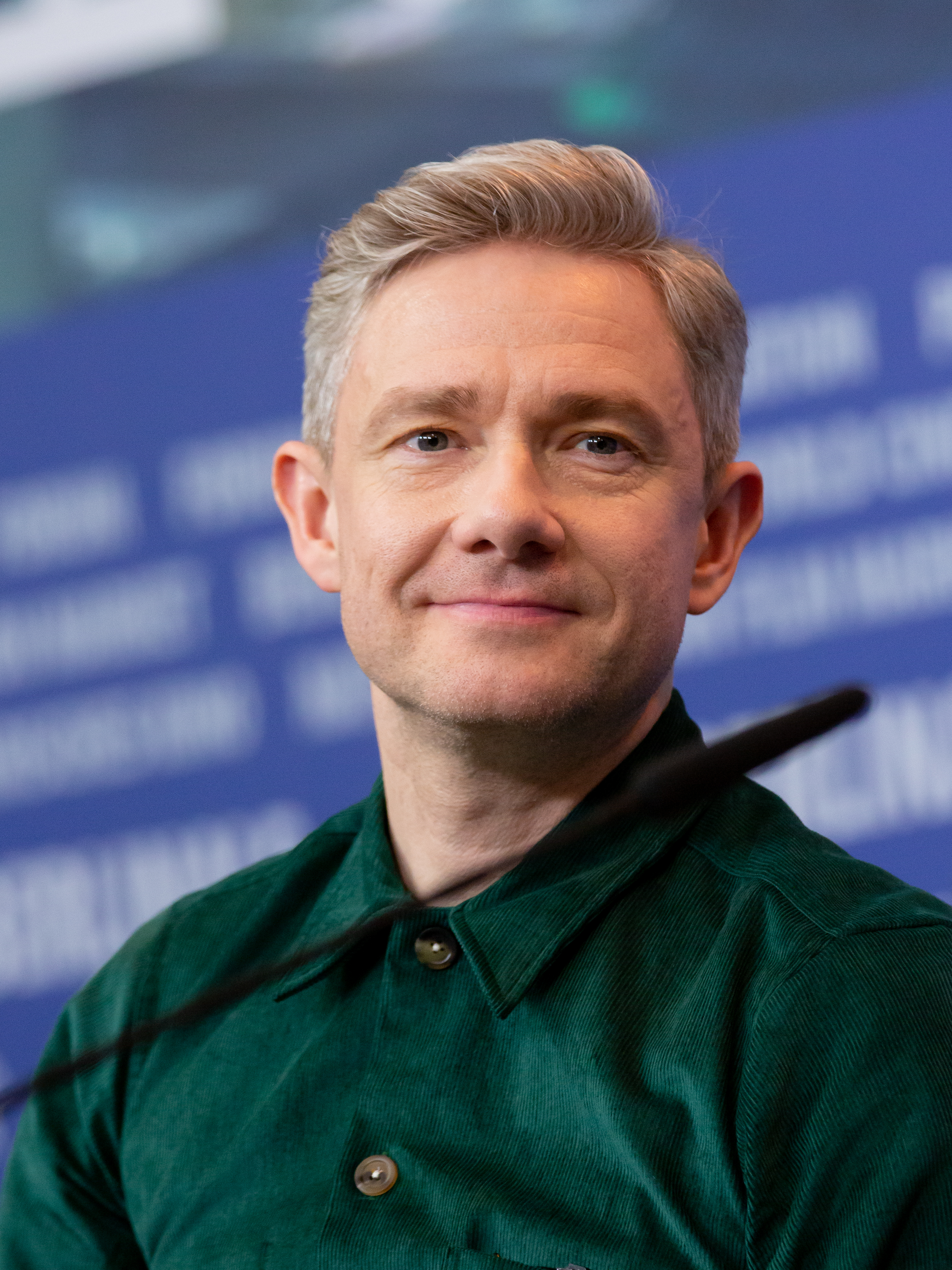 Actor Martin Freeman at the Berlinale 2019